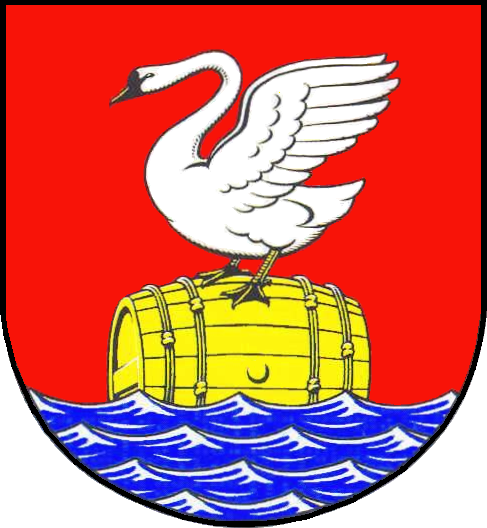 Coat of arms of Tönning Blasonierung: In Rot auf blau-silbernen Wellen im Schildfuß schwimmend eine liegende goldene Tonne, auf der ein schwarzbewehrter silberner Schwan mit erhobenen Flügeln steht.